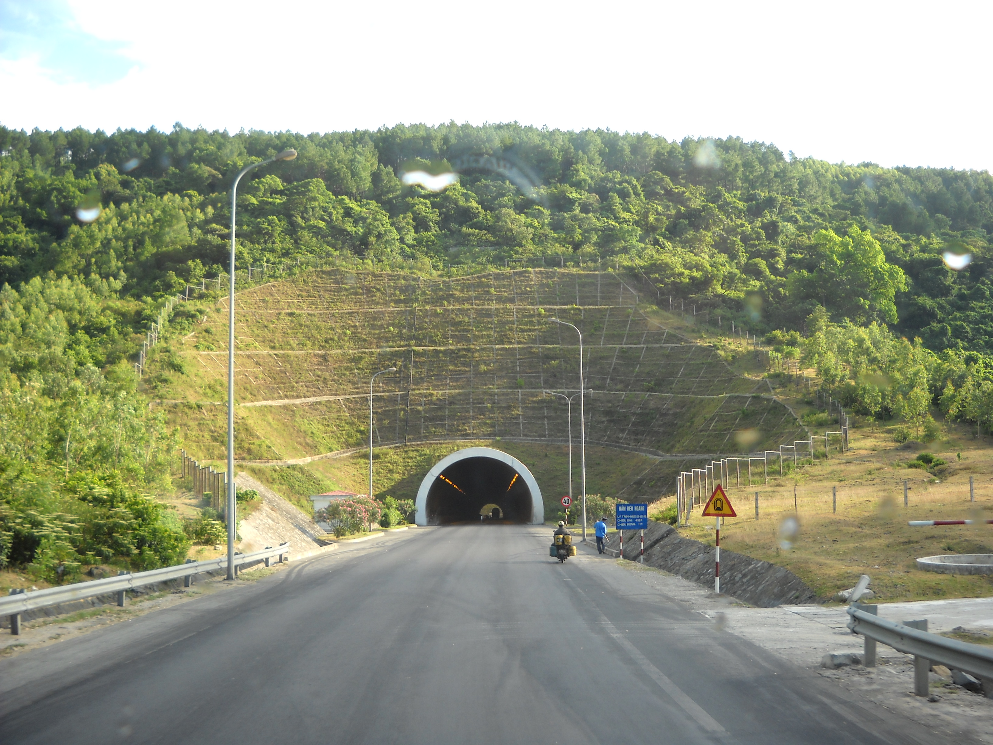 South entrance of Đèo Ngang Tunnel, Central Vietnam